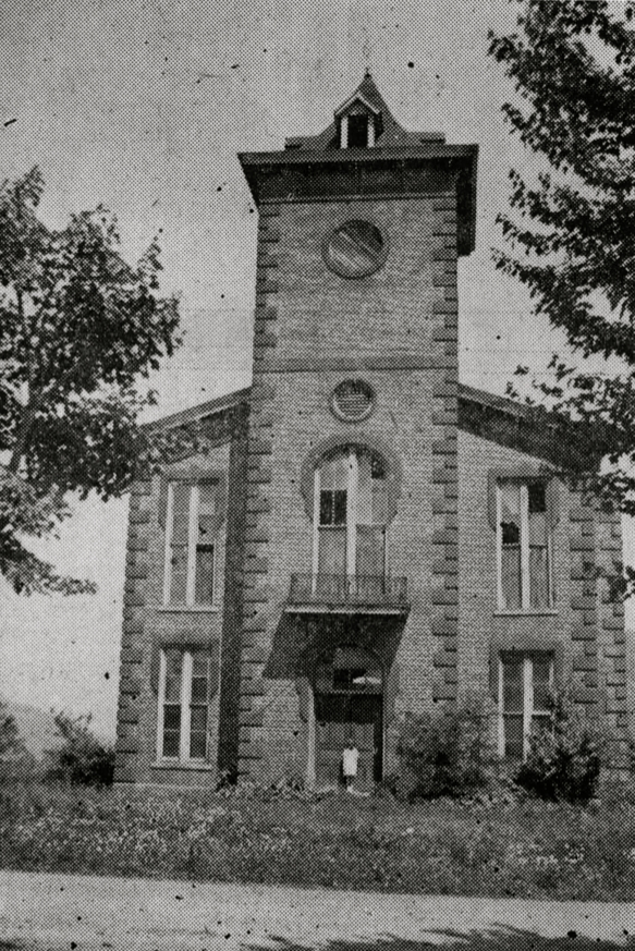 The old 1888 Jackson County Courthouse in Webster, which replaced an earlier 1851 frame structure destroyed by fire in 1887 and lasted until 1935 when it was demolished. Presently the site of the Rhinehart Home.